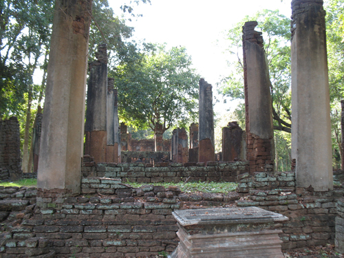 Wat Phra Non, Kamphaeng Phet Province.